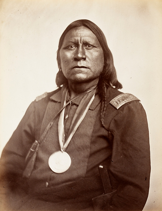 Portrait of Chief Satanta (White Bear) Wearing Peace Medal, Leather Bag, Blanket, and Military Jacket. “This photograph must have been made early in the spring of 1867 at Fort Dodge. The chief is wearing a jacket made partly of an army officer's uniform, with the insignia of a captain. In may of that year, General Hancock gave him a major general's coat. He appears to be waring a Washington medal but there is no record that he was ever presented with one. Note that his hair is cut off just below the ear on the right side; this was a Kiowa custom.” —Smithsonian Institution, Bureau of American Ethnology, In: Wilbur Sturtevant Nye, Plains Indian raiders : the final phases of warfare from the Arkansas to the Red River, with original photographs by William S. Soule. University of Oklahoma Press, 1st edition, 1968, ISBN 0806111755, p186.